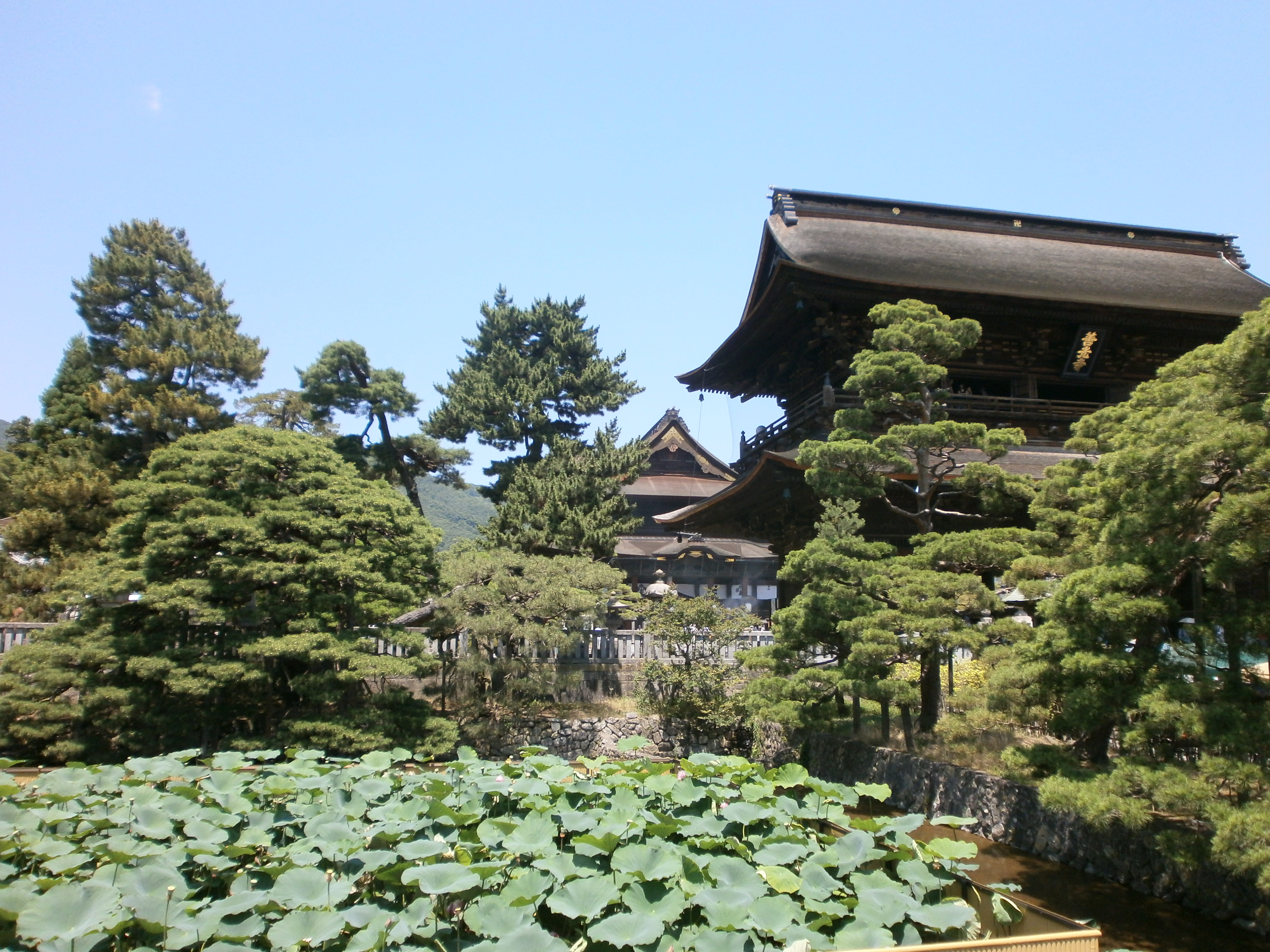 Zenkouji-houjyouike